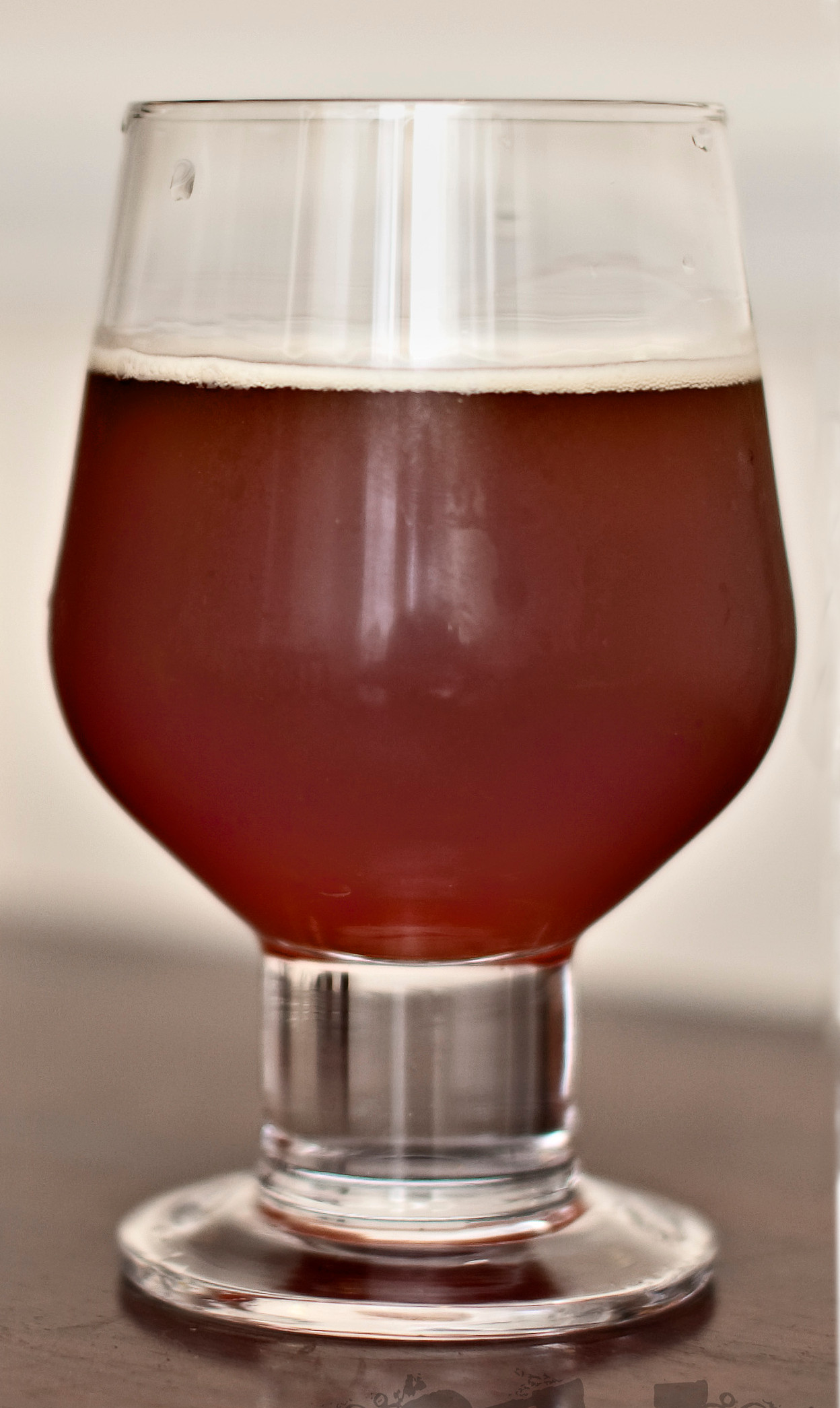 Old ale is a term commonly applied to dark, malty beers in England, generally above 5% abv, often also called Winter Warmers and also to dark ales of any strength in Australia. Sometimes associated with stock ale or, archaically, keeping ale, in which the beer is held at the brewery. American brewed old ales will tend to be of a barley wine strength.